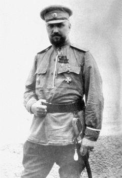 Boris Vladimirovich Gerua (1876-1942)